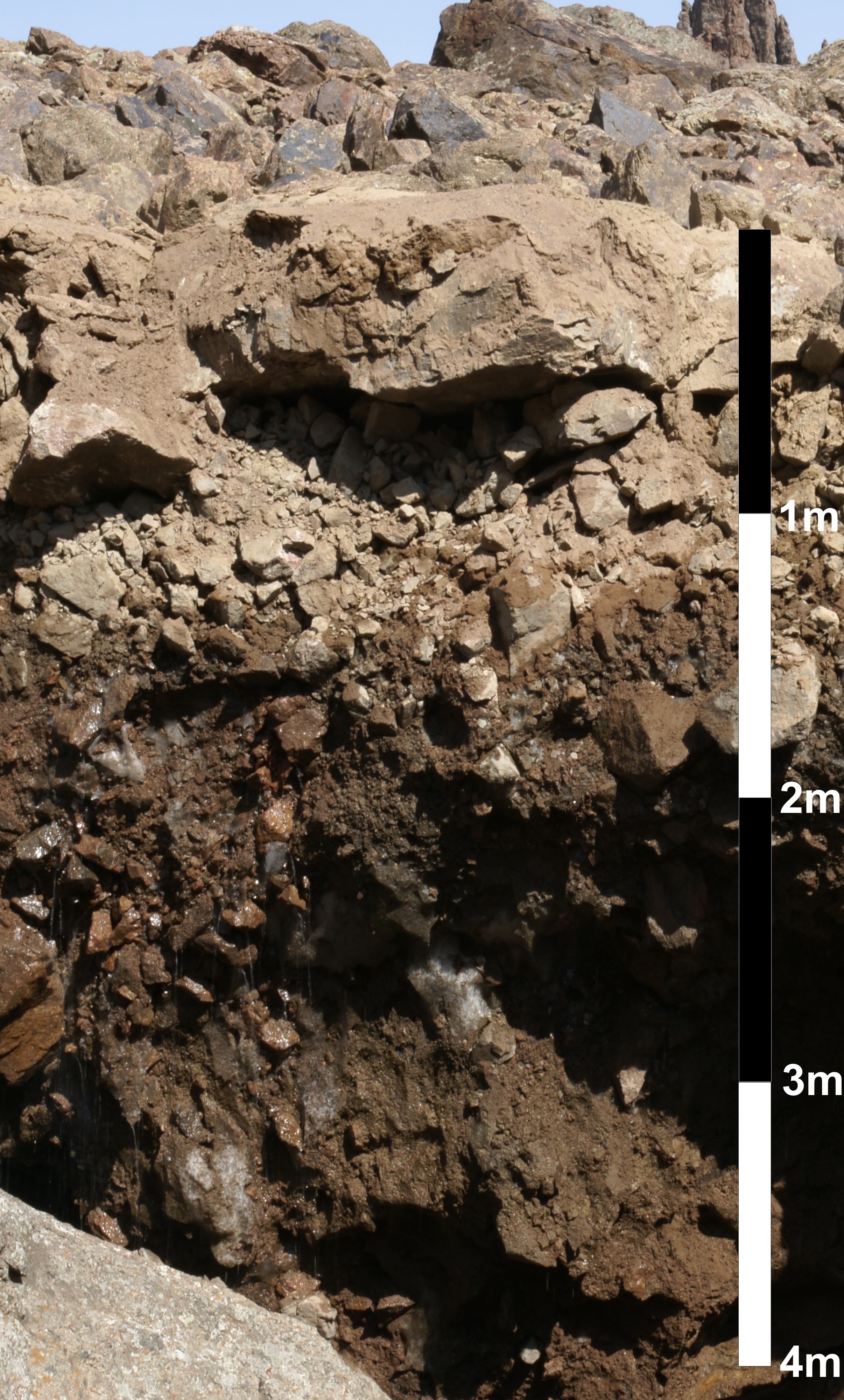 Outcrop of Manschuk-Mametowa rock glacier in Northern Tien Shan Kazakhstan, August 2010 (Lat. 43.0774; Lon. 77.093, elevation: 3450m)